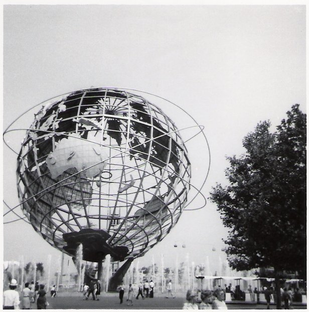 1964 New York World's Fair